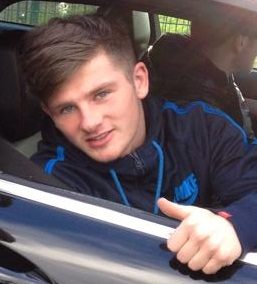 A photo of Matthew Kennedy.